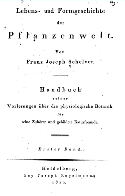 The title page of the book Lebens- und Formgeschichte der Pflanzenwelt (1822) of german botanist Franz Joseph Schelver (1778—1832).